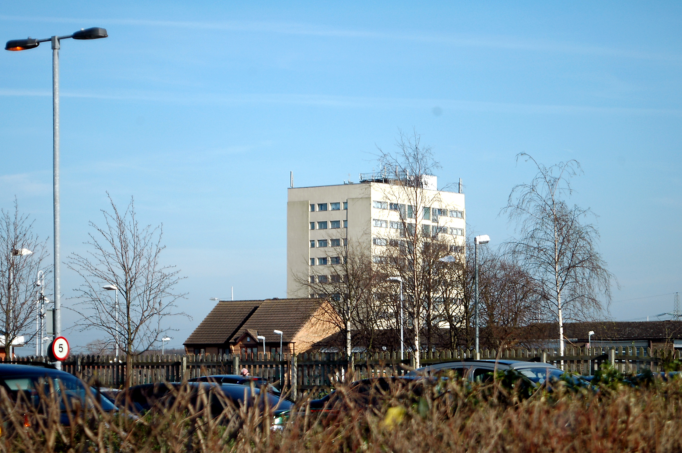 Created by Erebus555. This is Chivenoor House, one of two remaining tower blocks on the Castle Vale estate in Birmingham.